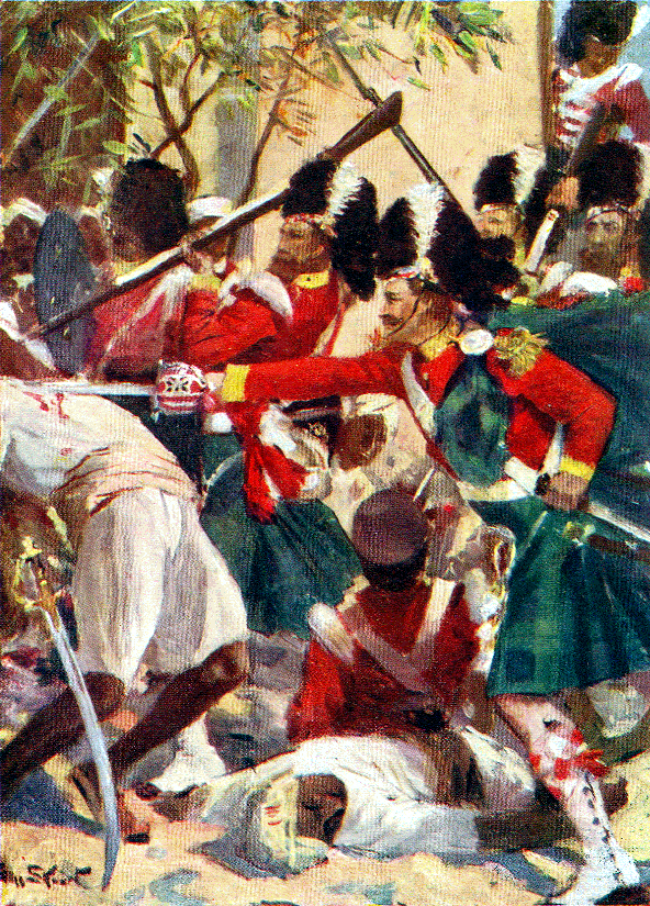 This history of India begins well before era of British colonization, during the age of the invasion of Alexander the Great, which was the west's first contact with the east. For much of the next millennium various Moslem lords rules parts of northern India. Finally, in the eighteenth century, France and Britain contested for control of the Asian trade centered in India, and for the following two centuries, India was Britain's most important colony.